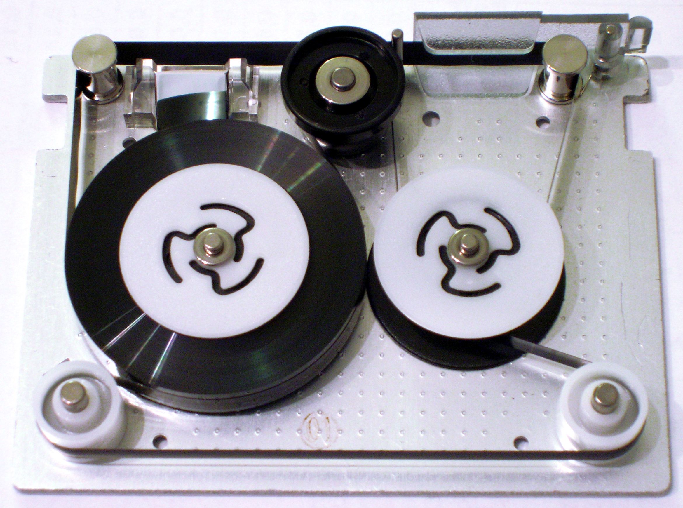 QIC-Tape opened with tape